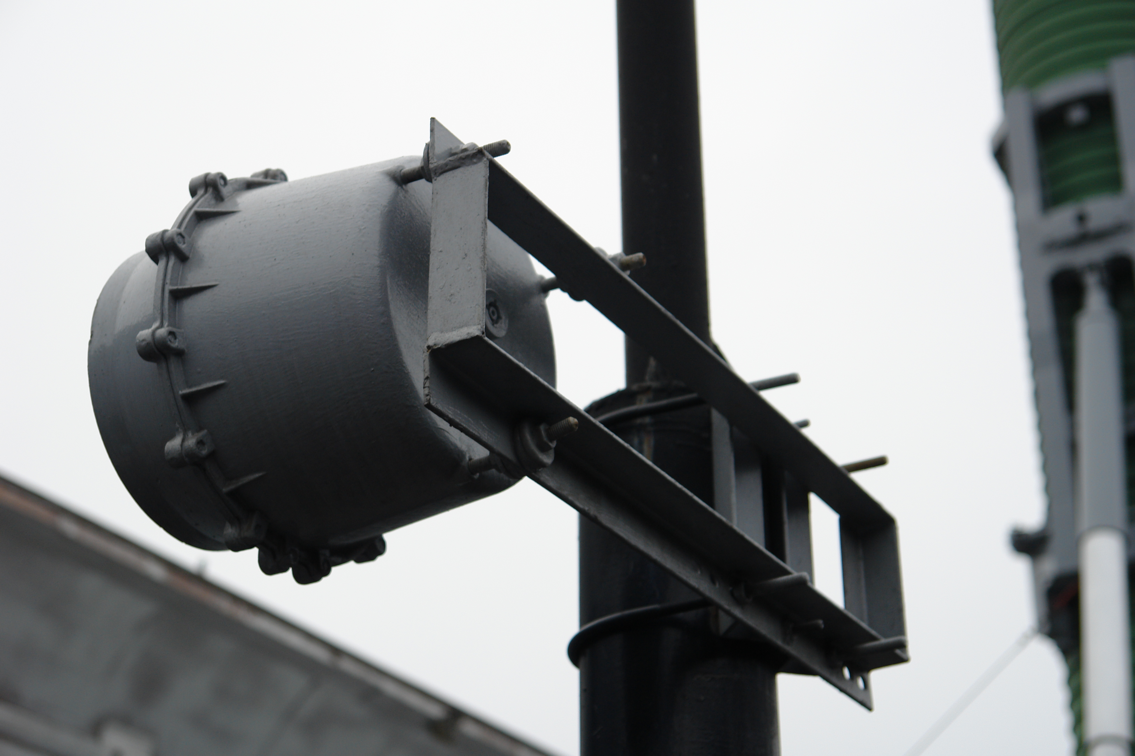 Passive code sensor Used for subsidiary orientation of a military railway missile complex while en route. Sensors were mounted on the overhead contact masts signal masts о special poles. Maximum distance between two sensors /s 25 km.